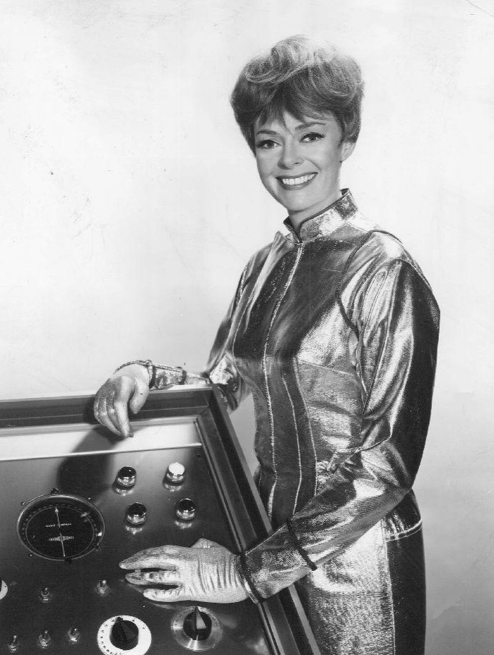 Photo of June Lockhart as Maureen Robinson from the television program Lost in Space.